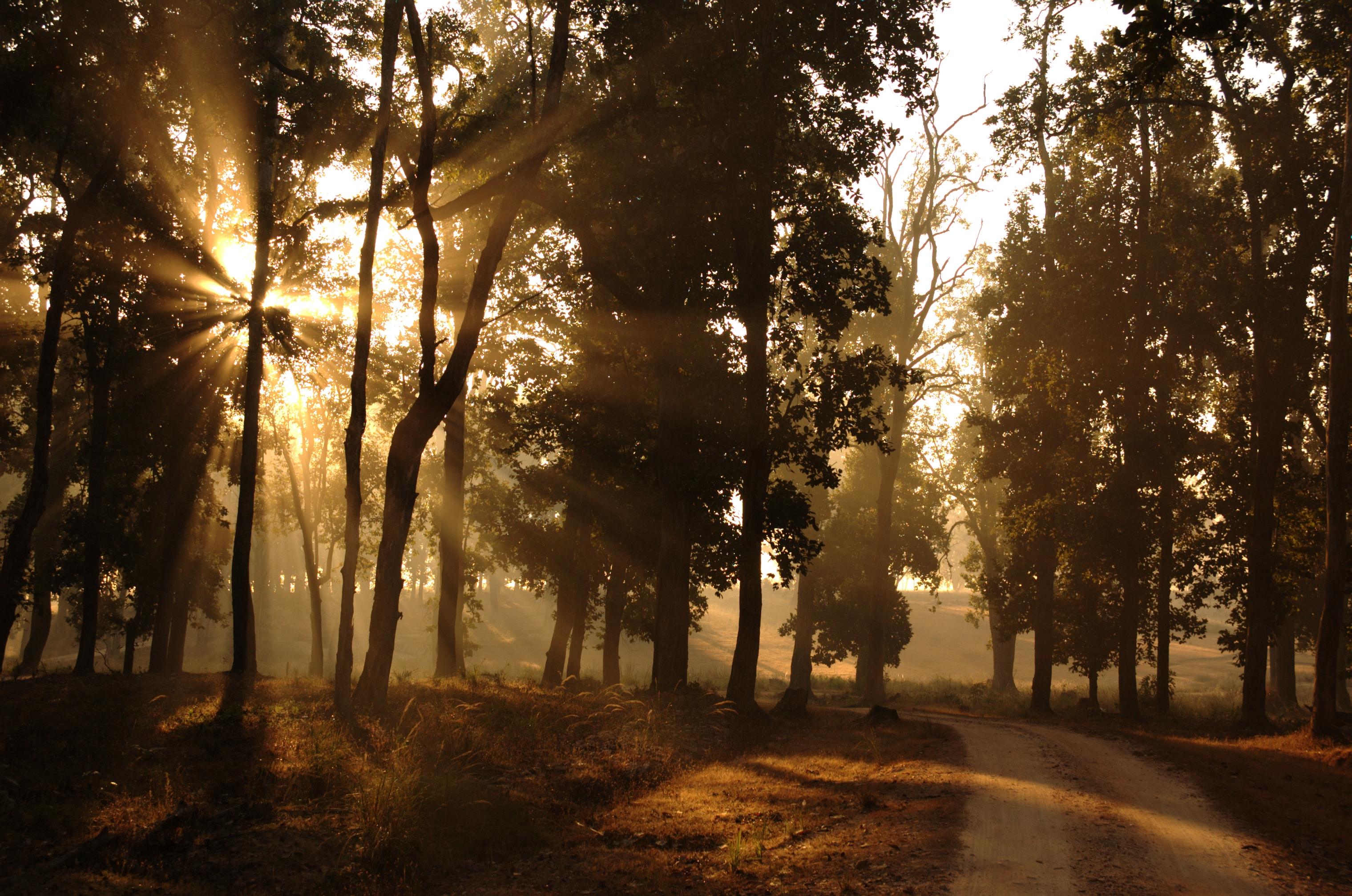 morning in Kanha national park